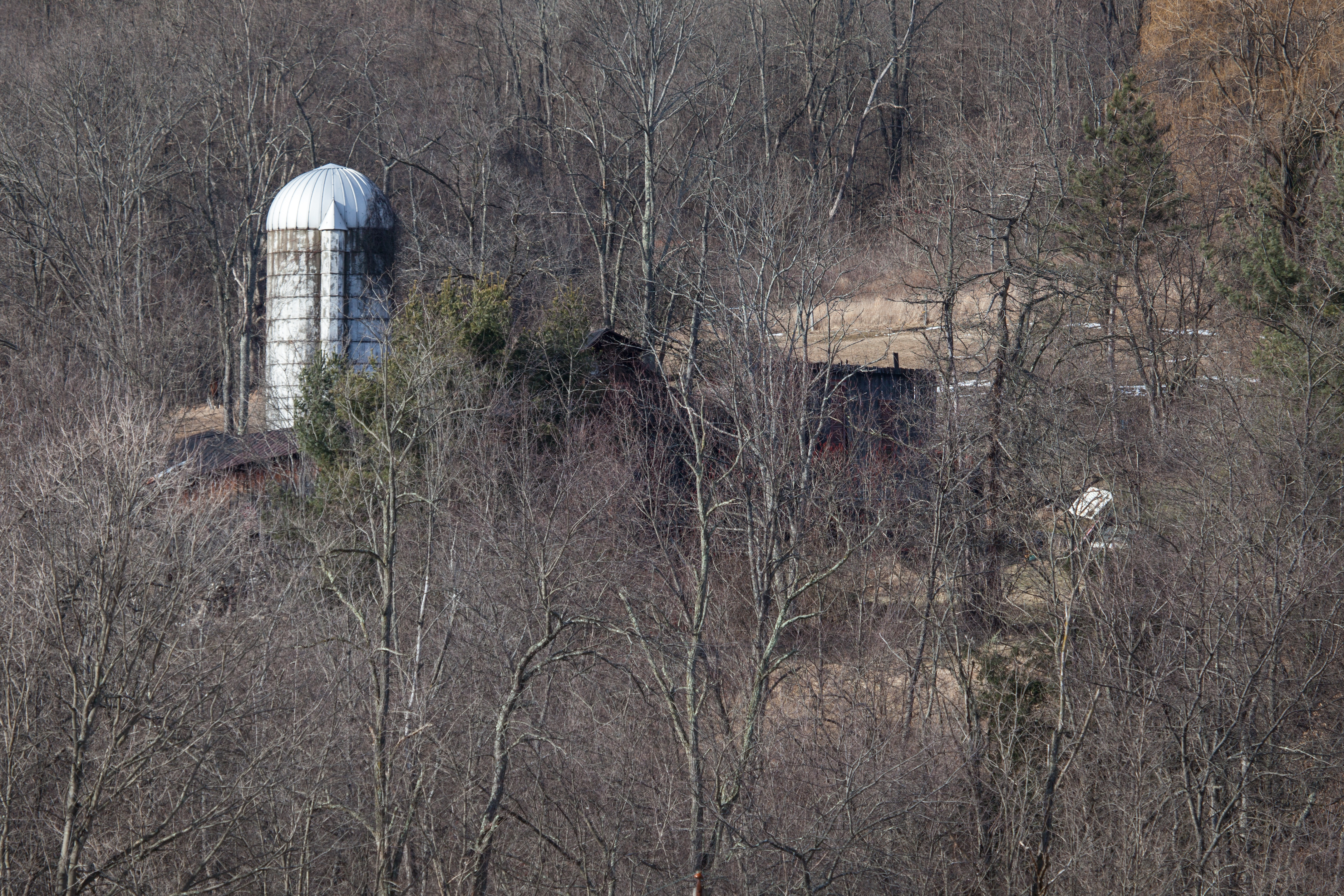 The 19th century barn and 1940s silo, one of the outbuildings of the Philip Friend House in North Bethlehem Township, Pennsylvania. The area is heavily wooded, and is seen here from the nearby Little Daniels Run Rd.